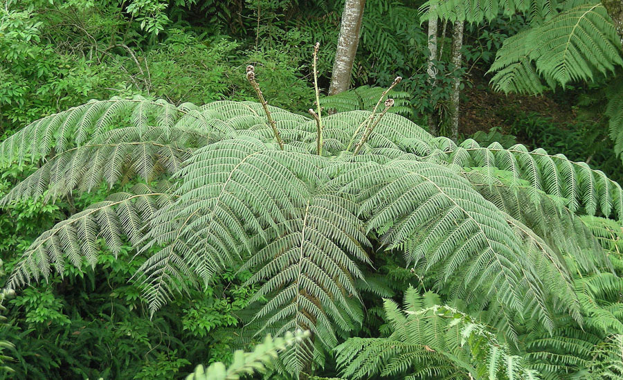 A tree fern with compound fronds, found in the tropical highlands from Costa Rica southward. Photo from near Armenia, Colombia In context at